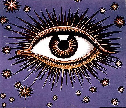 A detail of the Image:Plakat_v_Stuck11.jpg image already found at Wikimedia Commons, which is in the public domain since it was made in 1911 (i.e., before 1923) and its creator died in 1928, i.e. over 75 years ago. Made by me on 17 October 2006 using the GIMP.